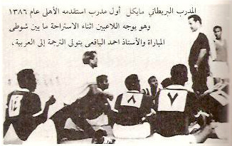 Michael-British Coach for Alahli